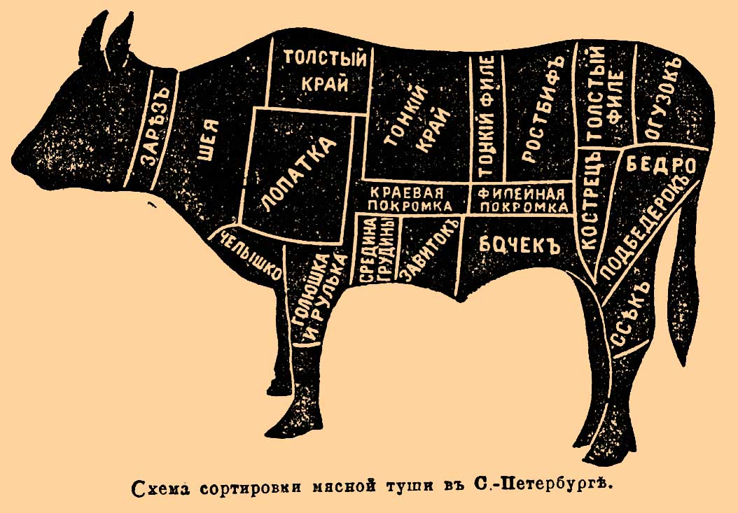 Illustration from Brockhaus and Efron Encyclopedic Dictionary (1890—1907)